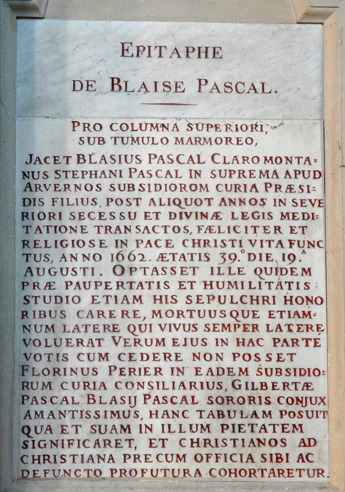 Latin epitaph of Blaise Pascal, church Saint-Étienne-du-Mont, Paris.